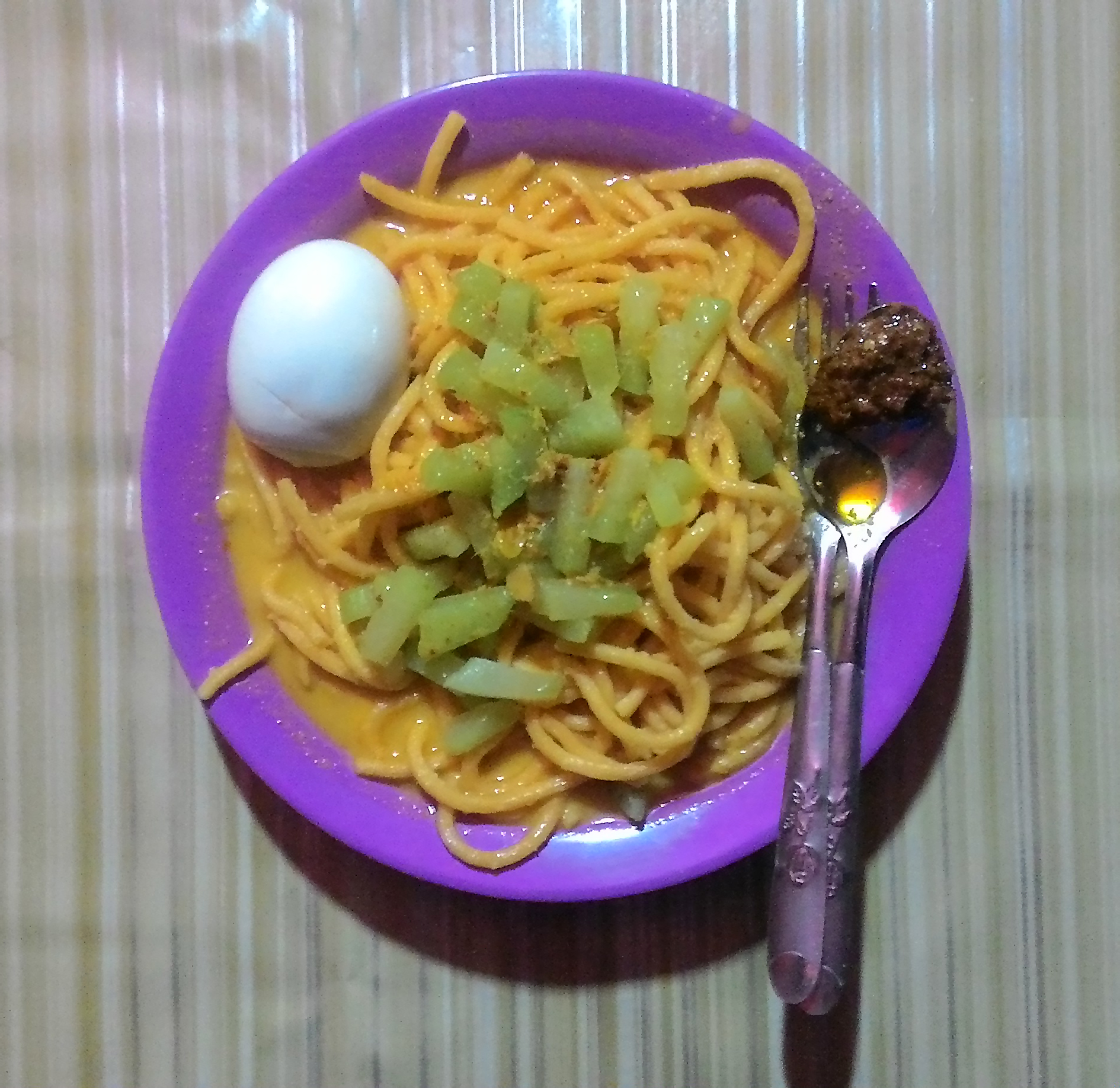 Mie Gomak is a spicy thick noodle dish originated from Batak culinary tradition of North Sumatra, Indonesia. The spice used in this dish is andaliman pepper commonly used in Batak cuisine. Here the noodle is served with vegetables including chayote, and also hard boiled egg.